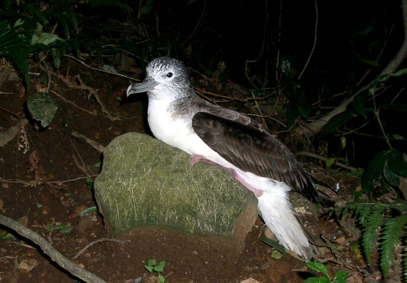 Streaked shearwater (Calonectris leucomelas) sitting on a rock in their breeding colony of the Mikura Island.